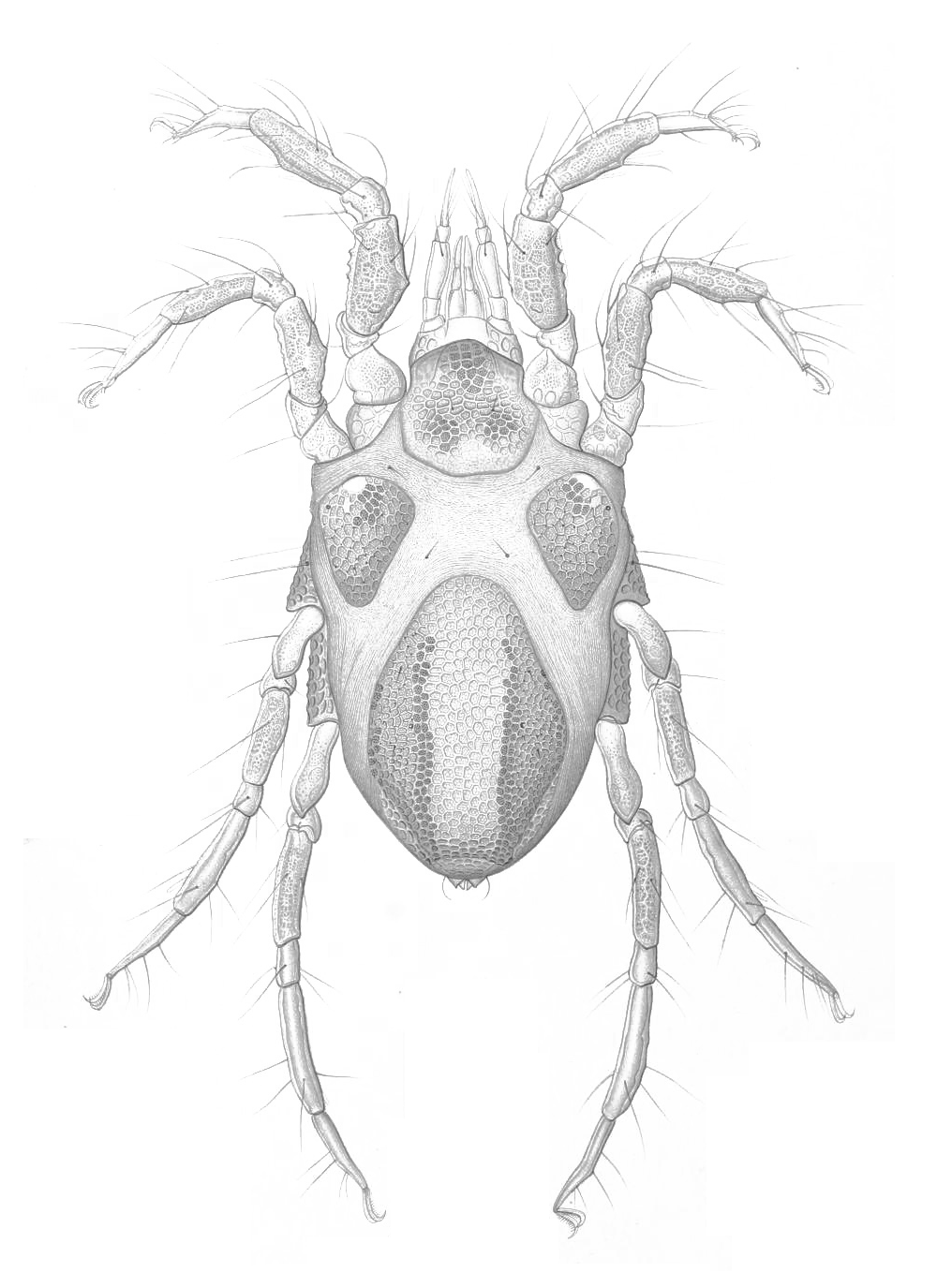 Dorsal view of marine mite Copidognathus fabricii (Acariformes: Trombidiformes: Halacaridae).